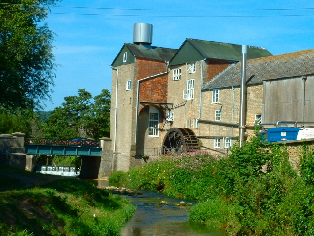 Palmer Brewery, Bridport, West Bay Road